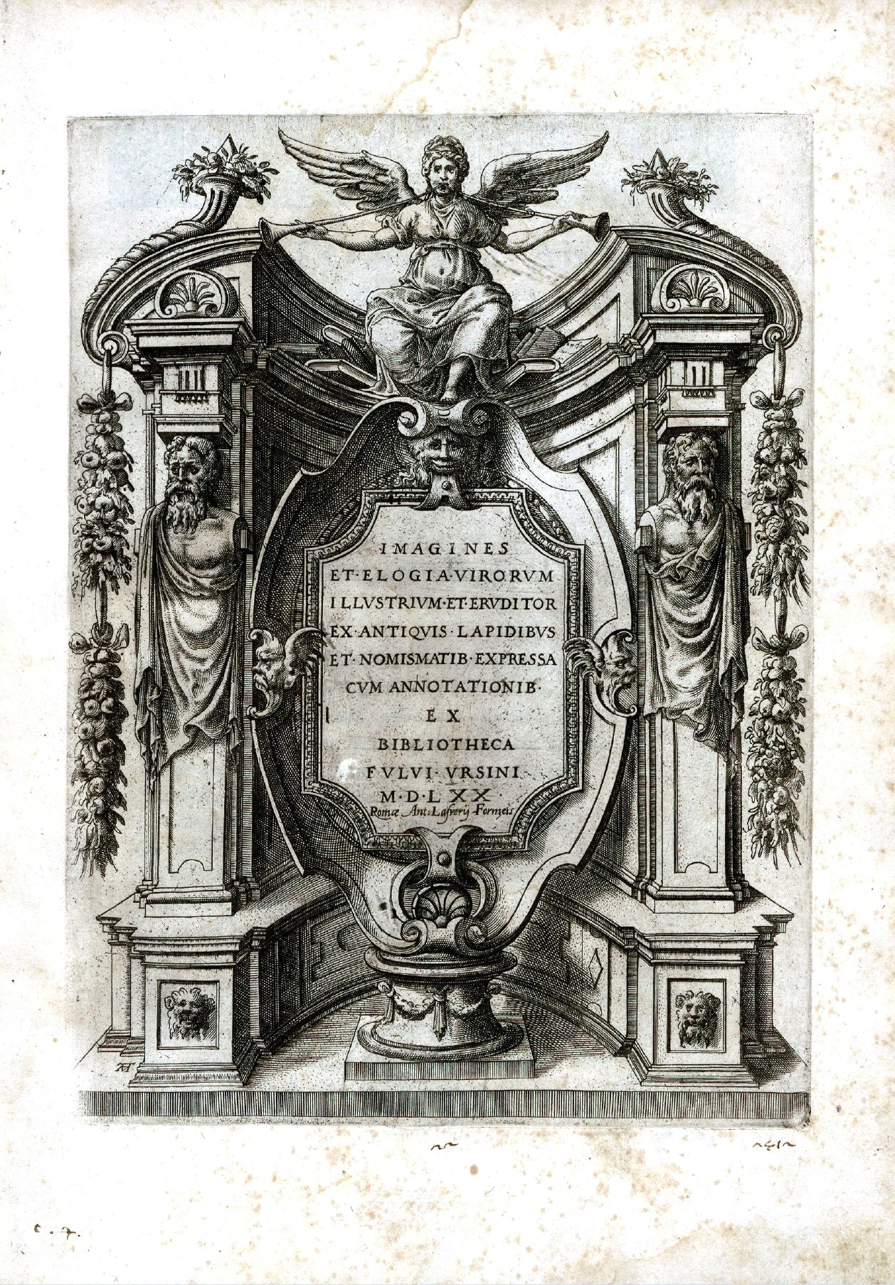 frontpage